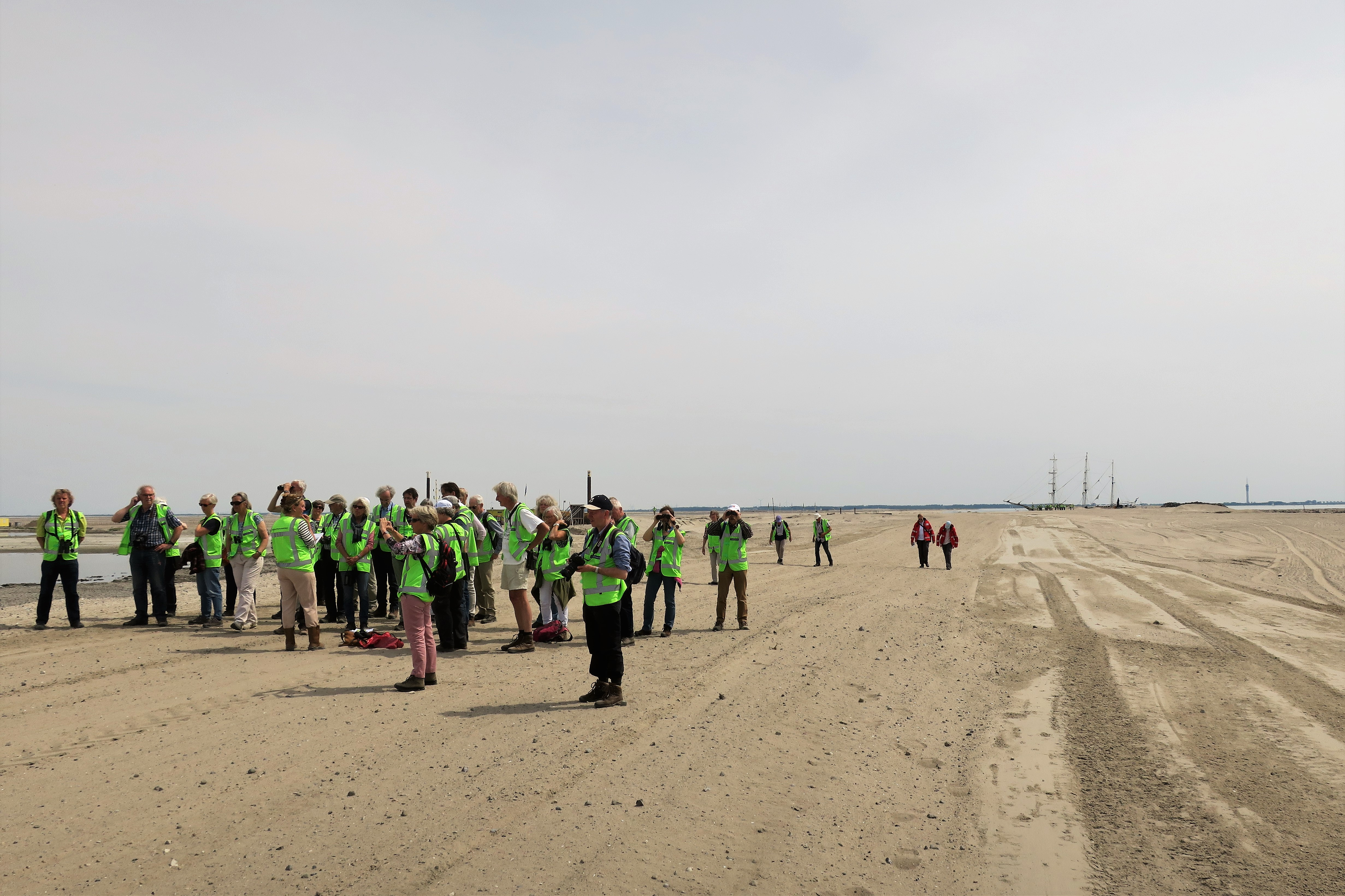 Guided tour on the Marker Wadden on a sunny day.